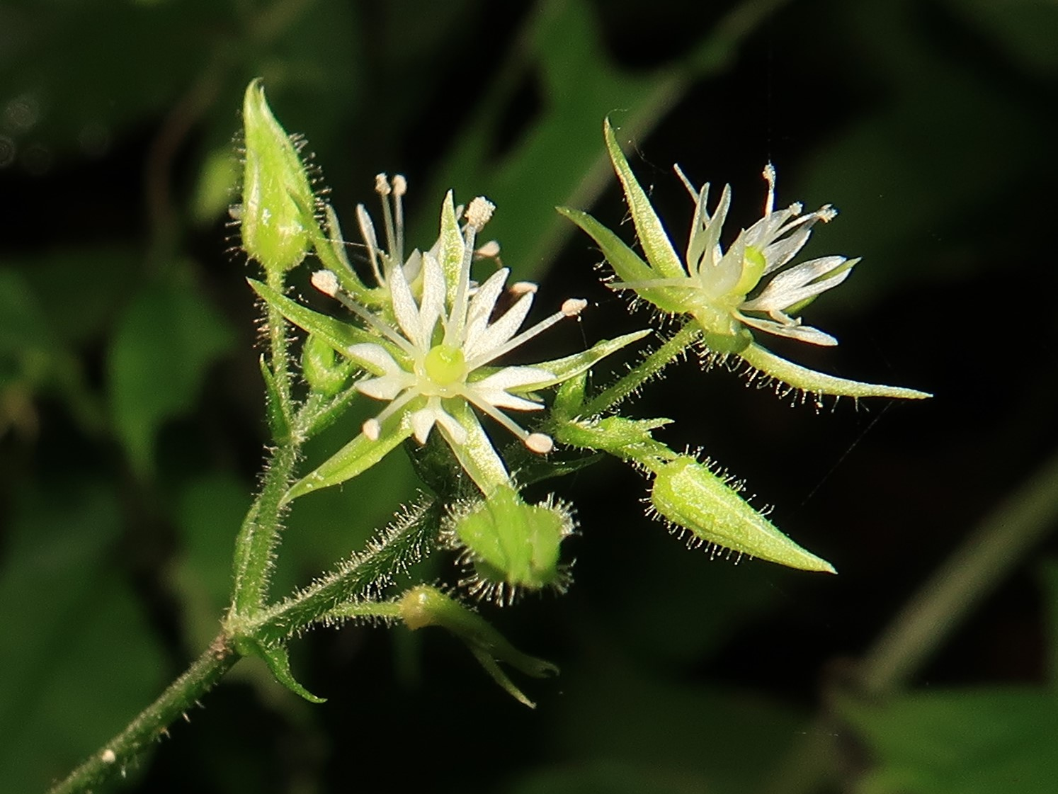 Stellaria monosperma var. japonica, Hama-dori area, Fukushima pref., Japan